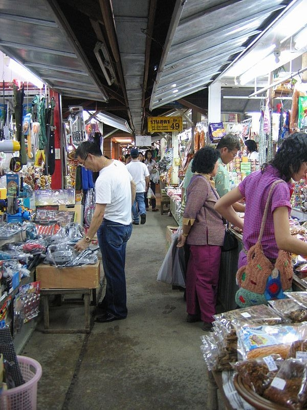 Rim Moei Market in Amphoe Mae Sot, Tak, Thailand